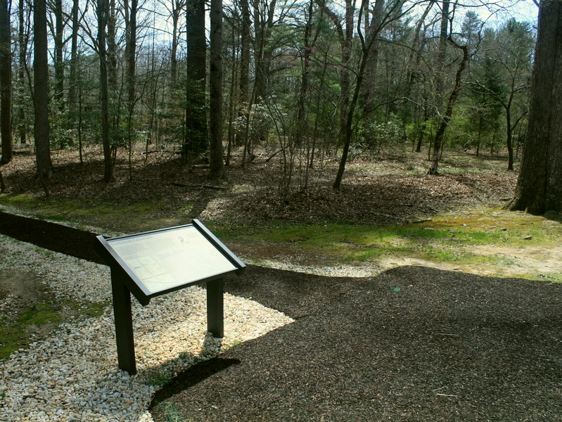 Site, where T. Jackson was mortally wounded